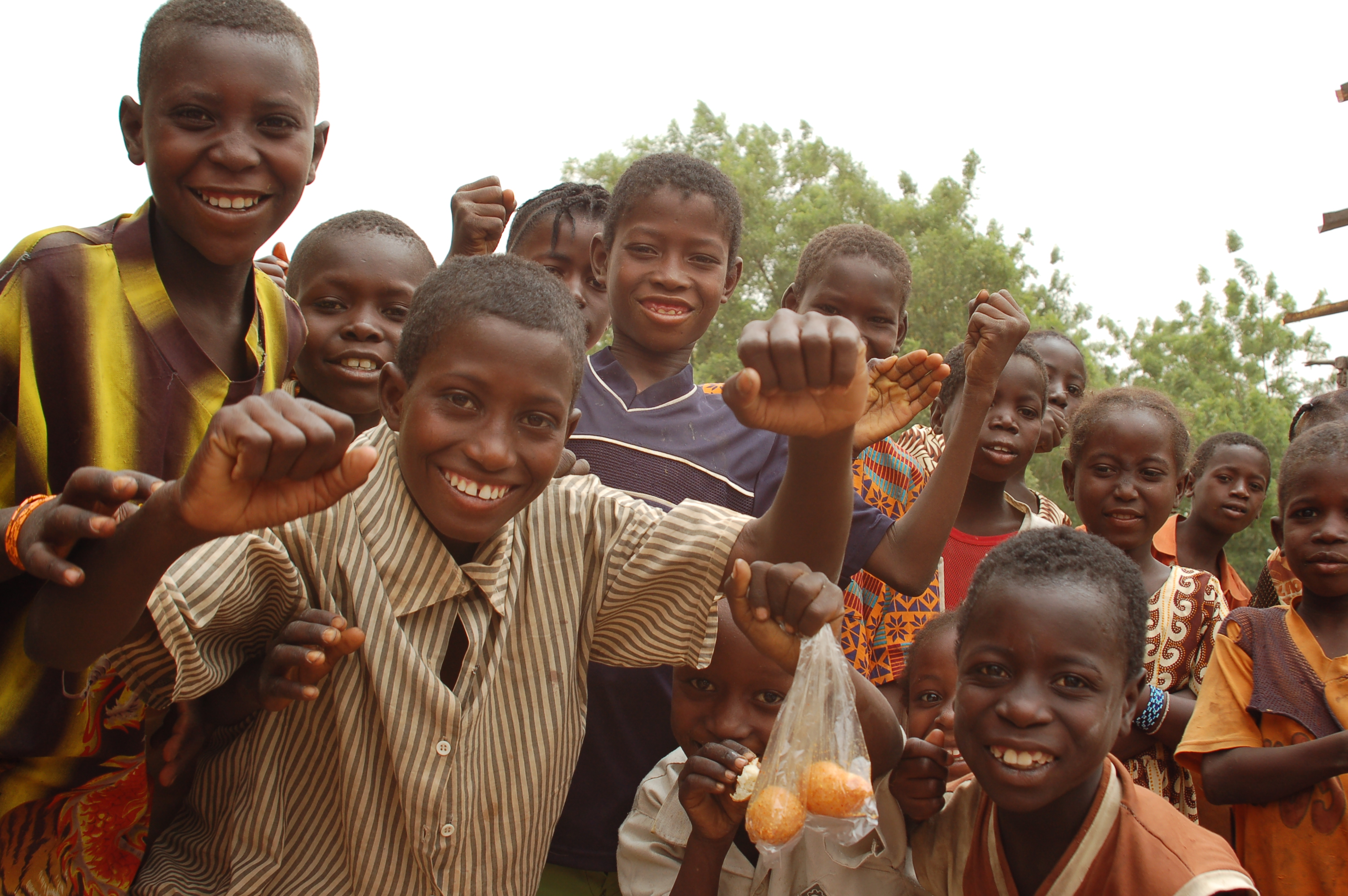 children/youth in Kouré village near Niamey, Niger